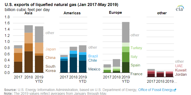 U.S. exports of liquefied natural gas (LNG) have been growing steadily and reached a new peak of 4.7 billion cubic feet per day (Bcf/d) in May 2019. July 29, 2019